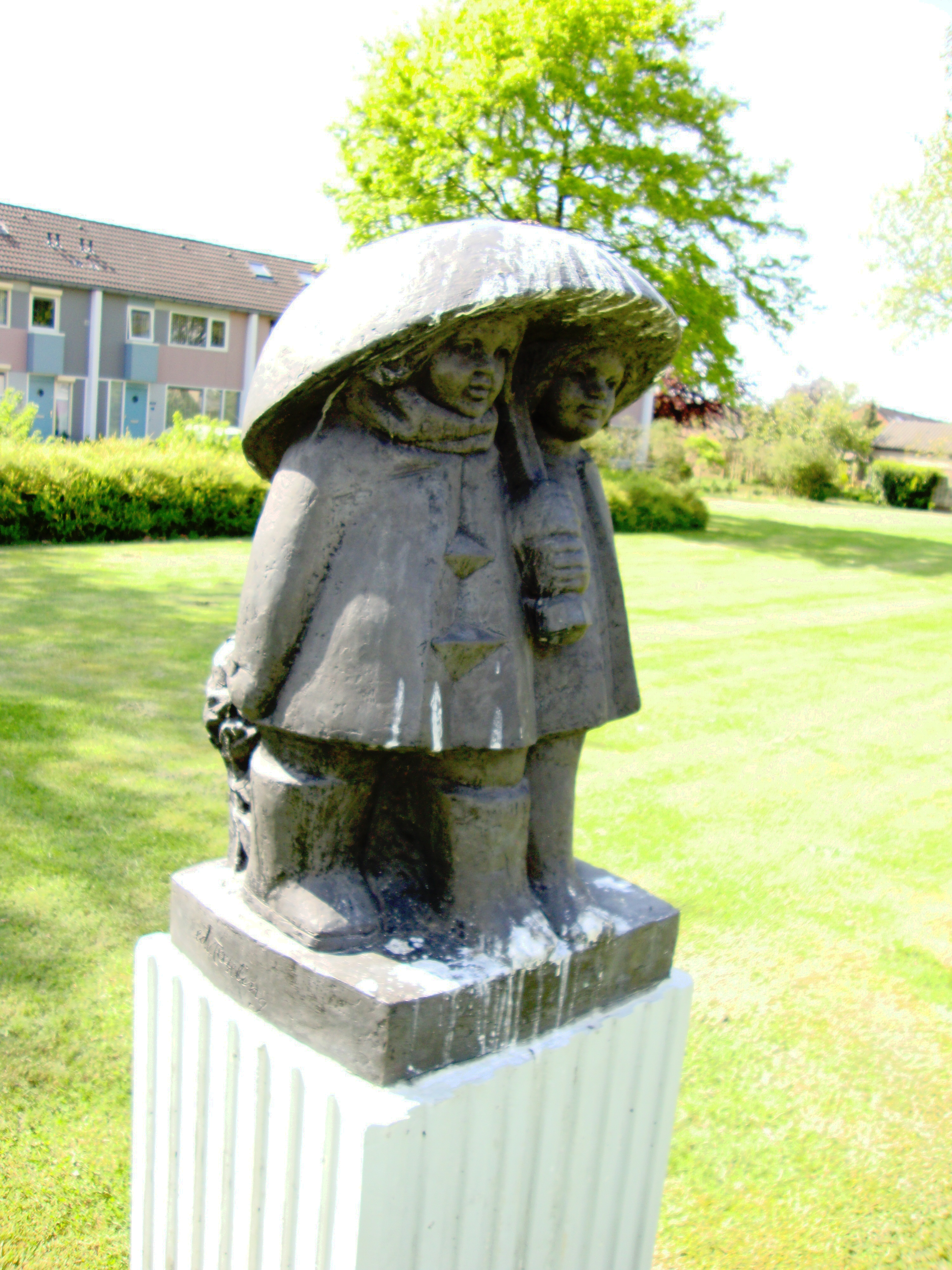 Sculpture Onder moeders paraplu, Wijchen (Gld, NL). Ed van Teeseling, artist, 1973. The title refers to a childrens song.